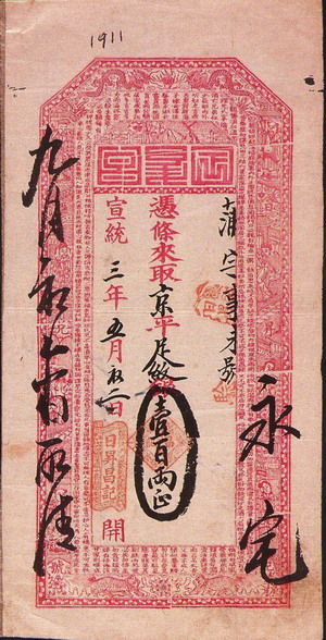 A remittance ticket issued by the branch of the Rishengchang Piaohao in the Qing Dynasty capital city of Beijing during the final year of the Xuantong Emperor and the whole Manchu Qing Dynasty.